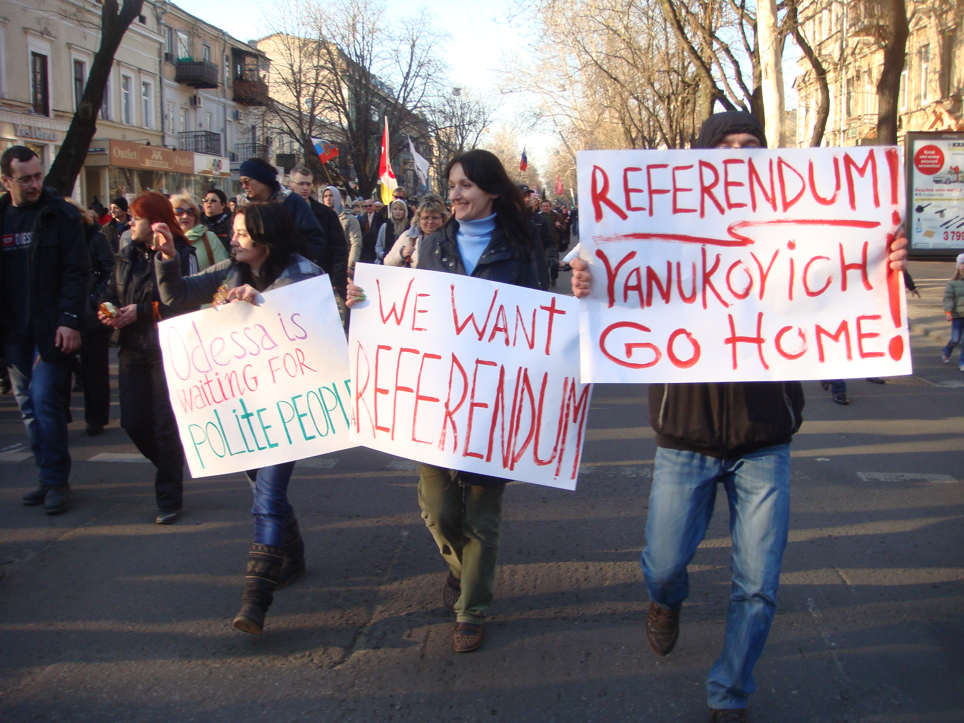 Protesters in Odessa on 2014-03-30 participating in demonstration against political repressions and for federalization of Ukraine.